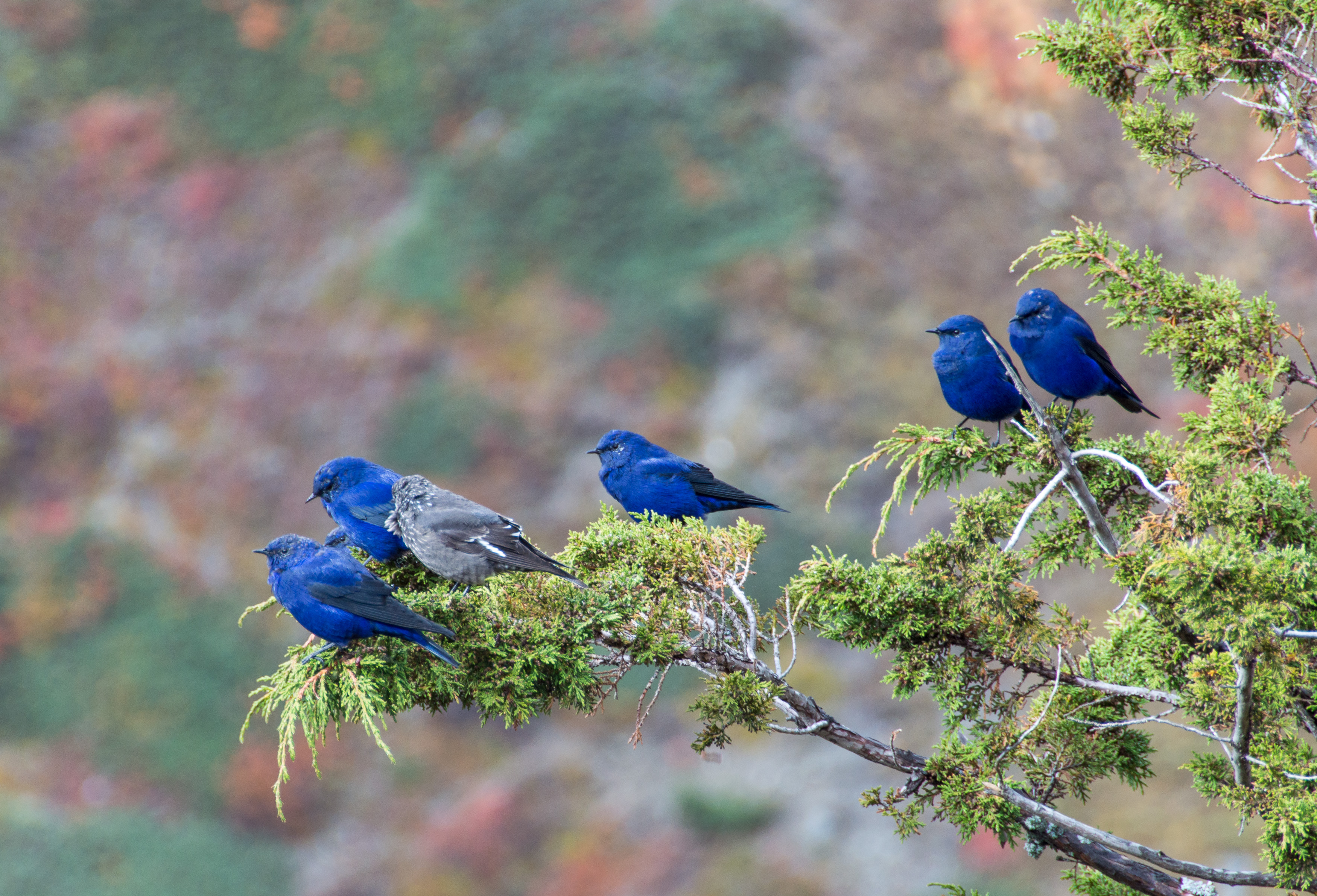 Grandala birds near Yak Kharka (Annapurna Circuit, Nepal)